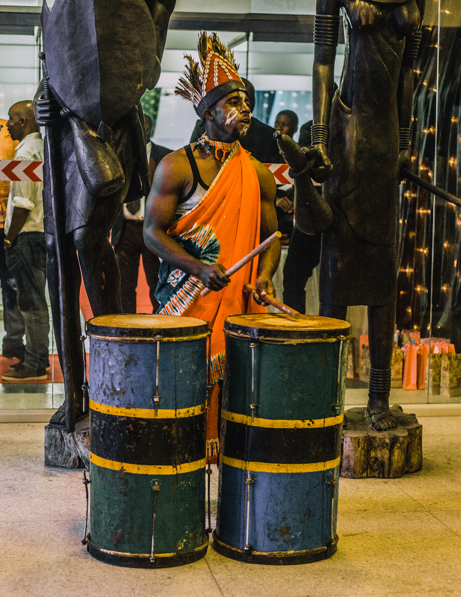 Tanzanian drum player performs in one of the biggest cultural ceremonies. Kiswahili: mpiga ngoma wa kitanzania akitumbuiza katika moja ya sherehe kubwa za utamaduni. This is an image with the theme "Play" from: Tanzania